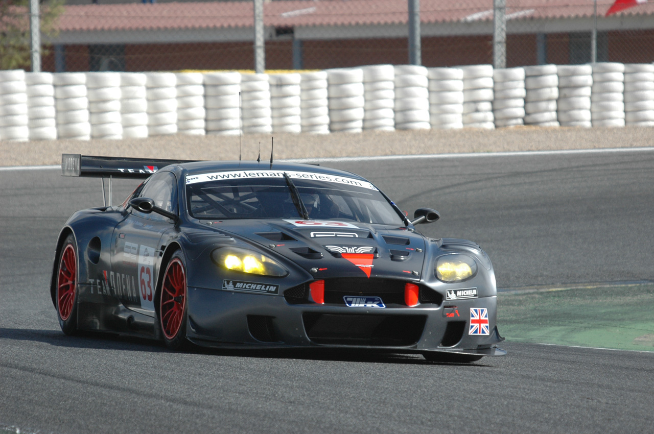 Aston Martin DBR9 of Team Modena driven by Antonio Garcia